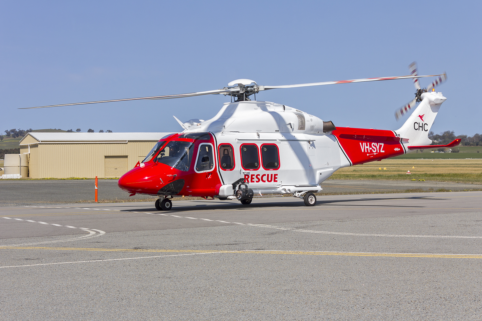 Lloyd Off-Shore Helicopters (VH-SYZ) AgustaWestland AW139 taxiing at Wagga Wagga Airport.